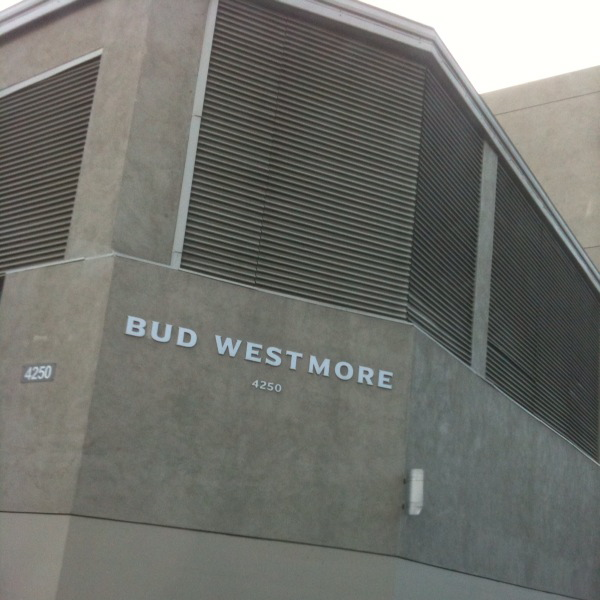 a photo of the bud westmore building